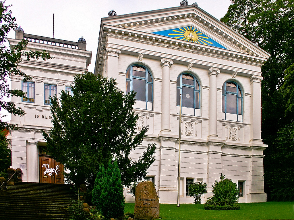 Johannis Masonic Lodge "Leuchte im Norden" of the Orient Flensburg, Nordergraben 23